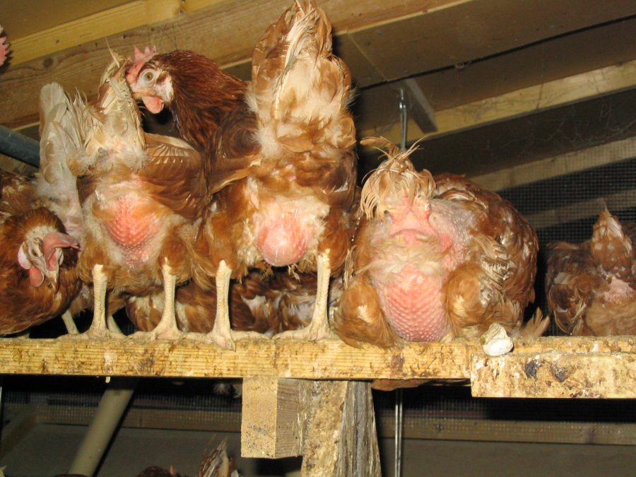 chicken with bald spots in a deep-litter system